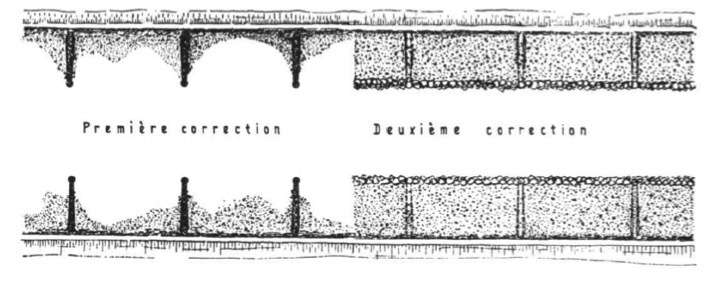 Système d'endiguement pour les deux corrections du Rhône